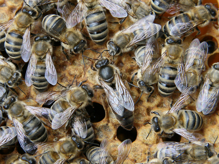 Queen bee with attendants on a honeycomb